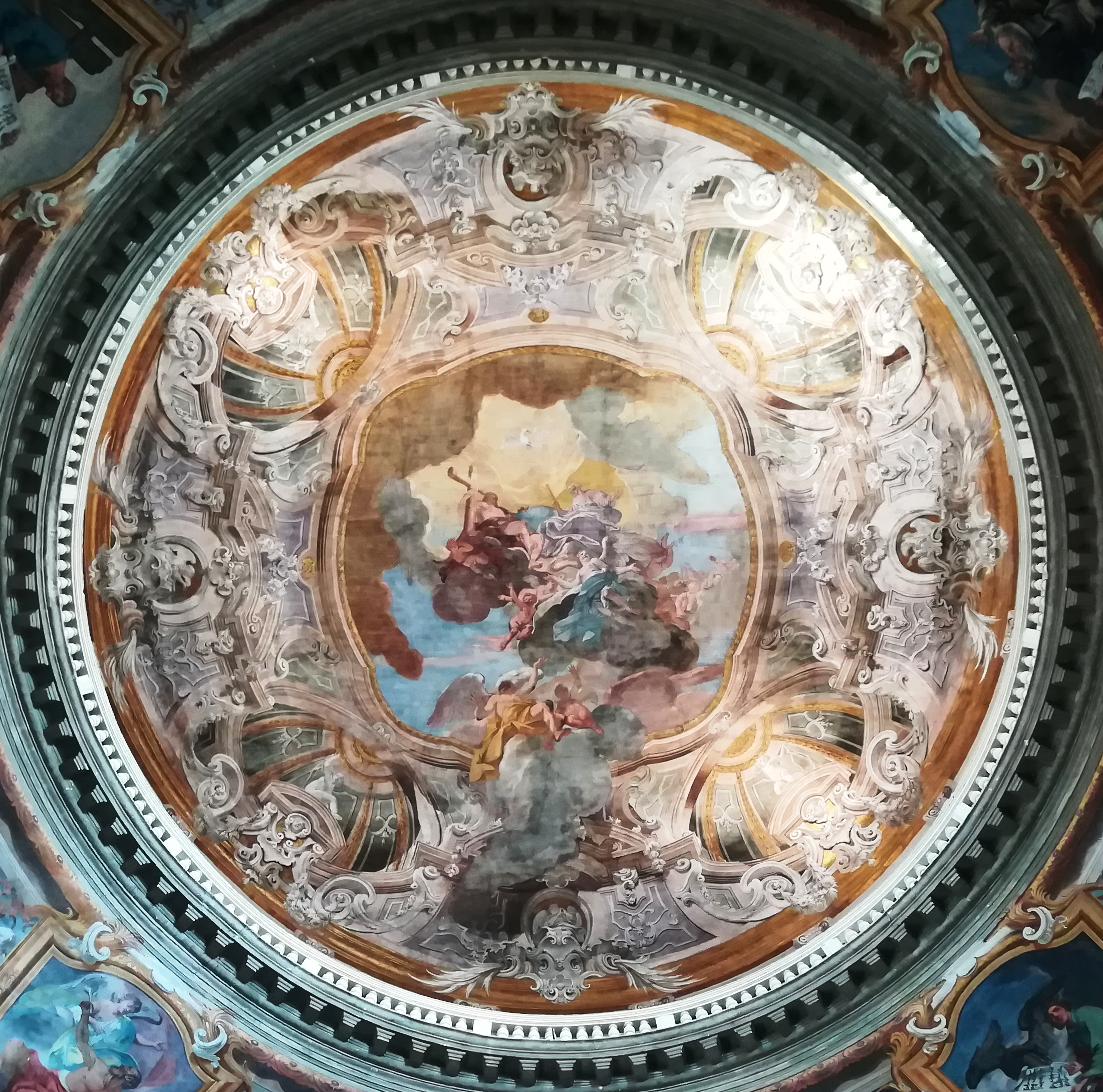 Interior of San Nicola da Tolentino (Venice)